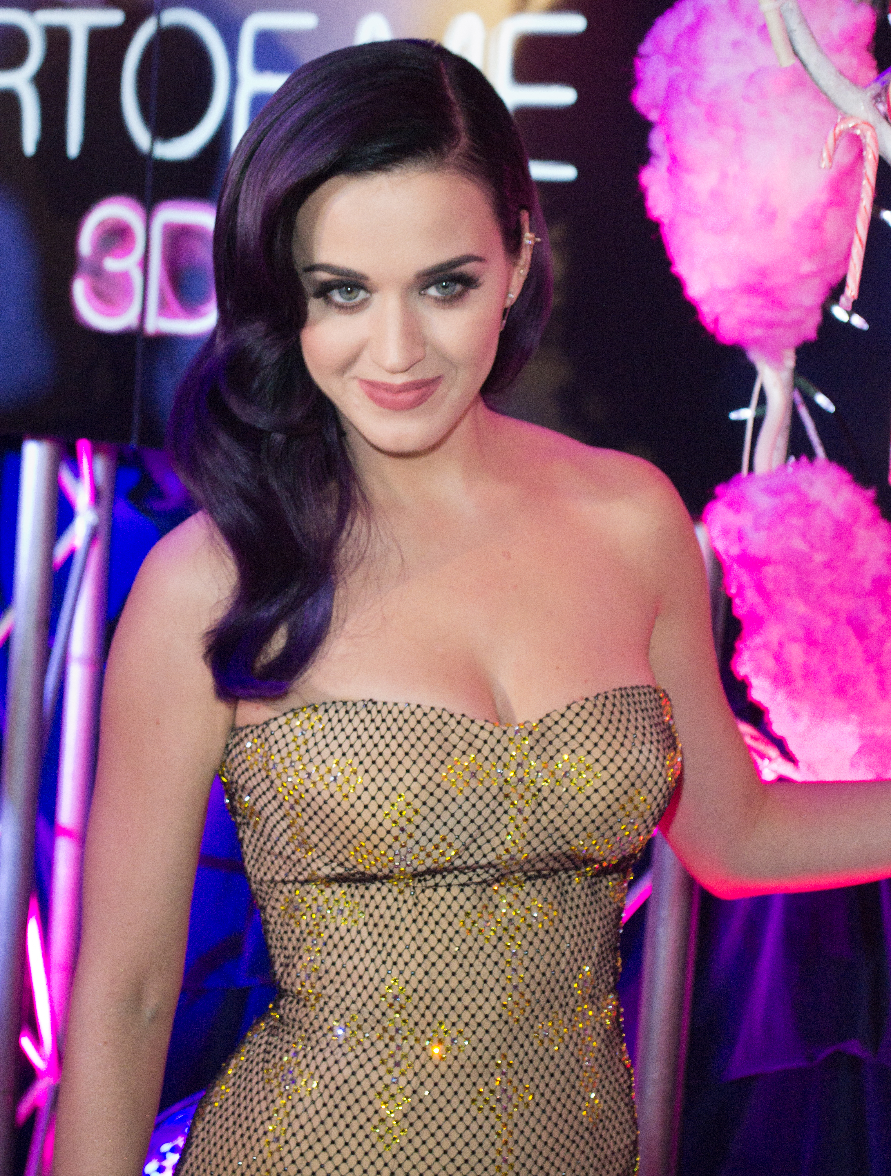 Katy Perry at the Premiere of the movie Part of Me in Sydney 2012.